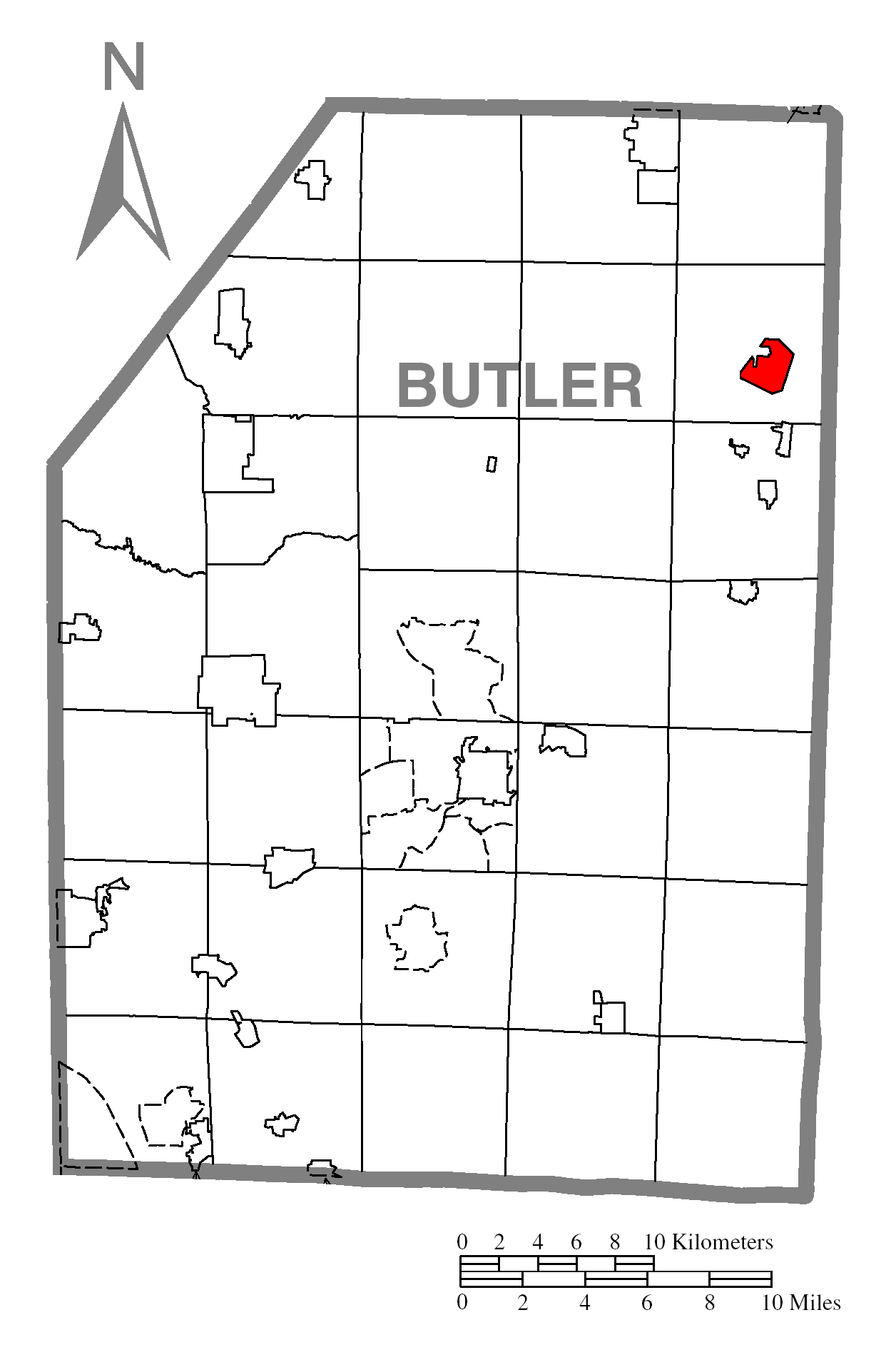 A map of Butler County showing Bruin, Pennsylvania (alternate) highlighted on the map.